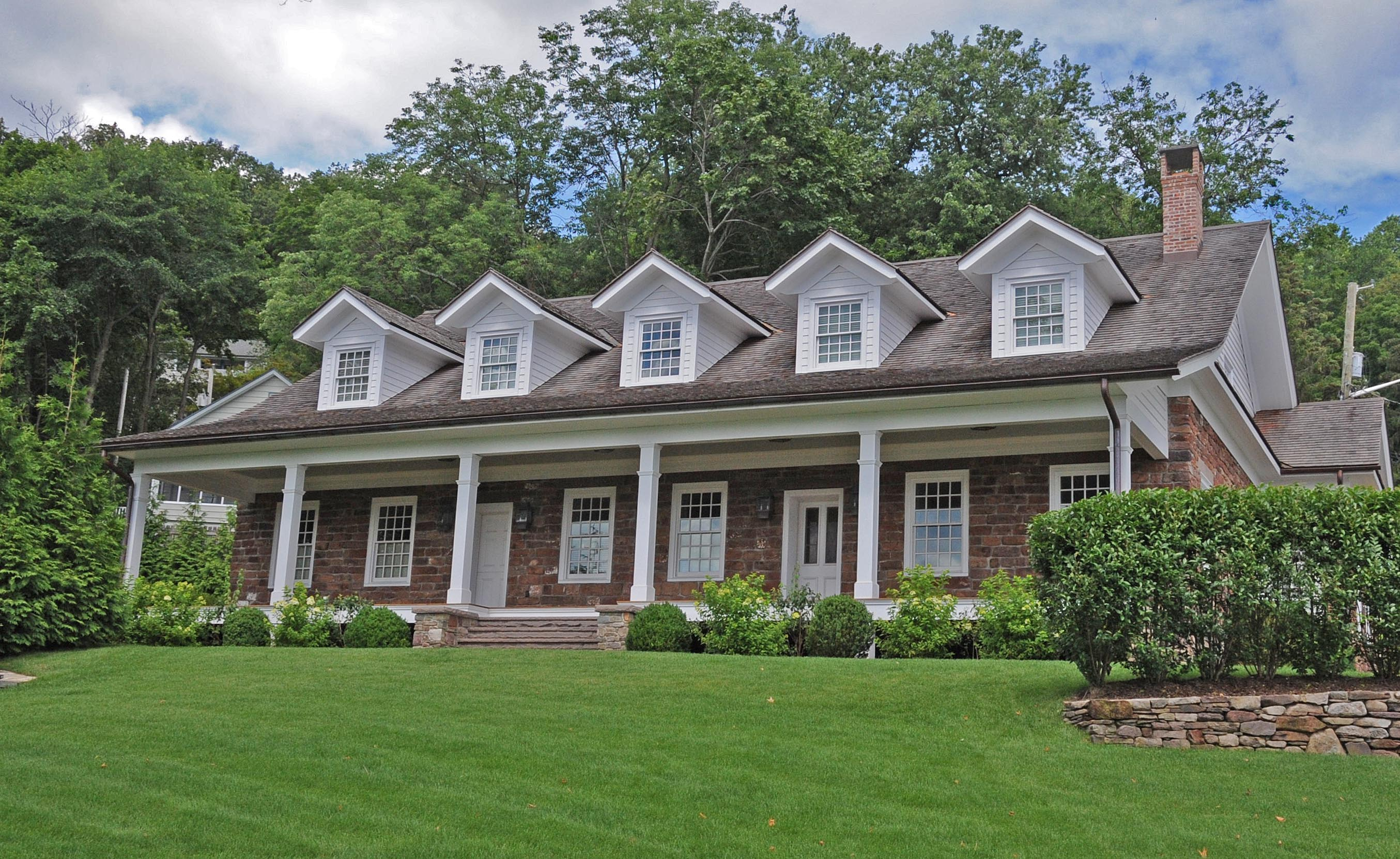 AKA HARING HOUSE AND AIRIE SMITH-ONDERDOCK HOUSE; BUILT FROM 1737 AND THEN ADDED TO IN 1810 AND 1837. HERE GENERAL WASHINGTON AND GOVERNOR GEORGE CLINTON LANDED IN PREPARATION TO MEET SIR GUY CARLETON TO ARRANGE FOR THE EVACUATION OF BRITISH TROOPS FROM NEW YORK CITY AT THE FINAL ENDING OF THE REVOLUTIONARY WAR